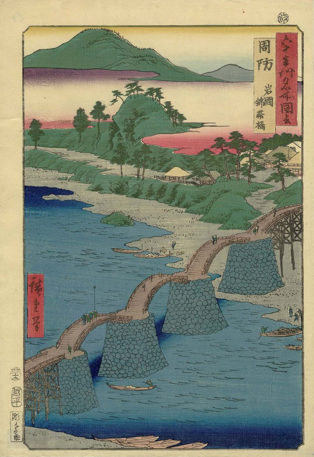 Part of the series Famous Places in the Sixty-odd Provinces, No. 51 (Sanyōdō group)